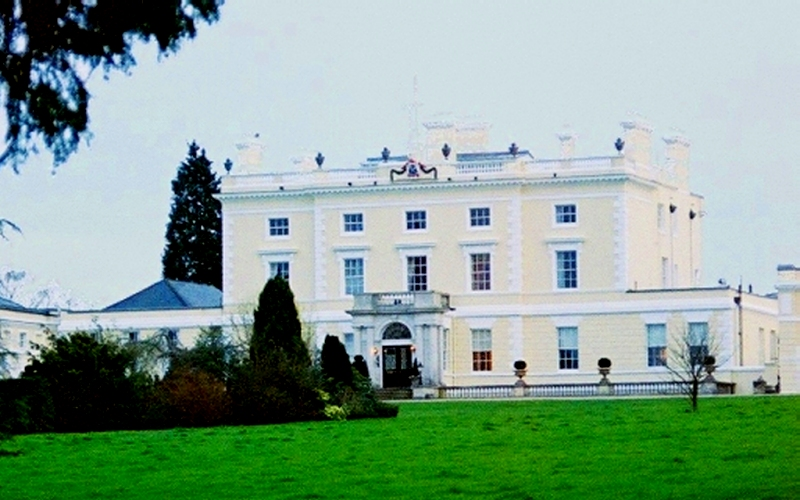 The North (entrance) front of the newer Norbury Park House (built in 1774 - part of its 16th Century predecessor also survives elsewhere in the Park), Mickleham, near Box Hill, Surrey.